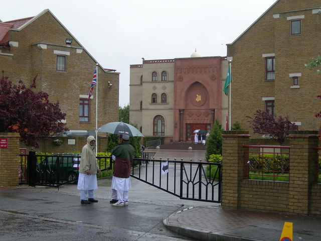 Mohammedi Park Masjid Complex. Rowdell Road, Northolt.